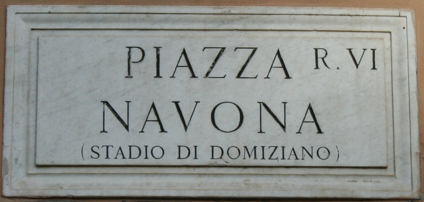 Sign for the Piazza Navona, Rome Italy